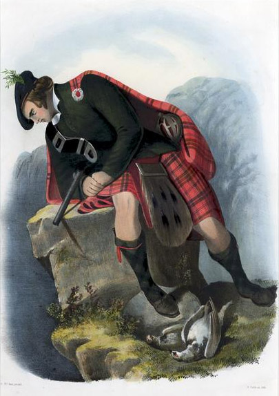 "Ross". A plate illustrated by R. R. McIan, from James Logan's The Clans of the Scottish Highlands, published in 1845.